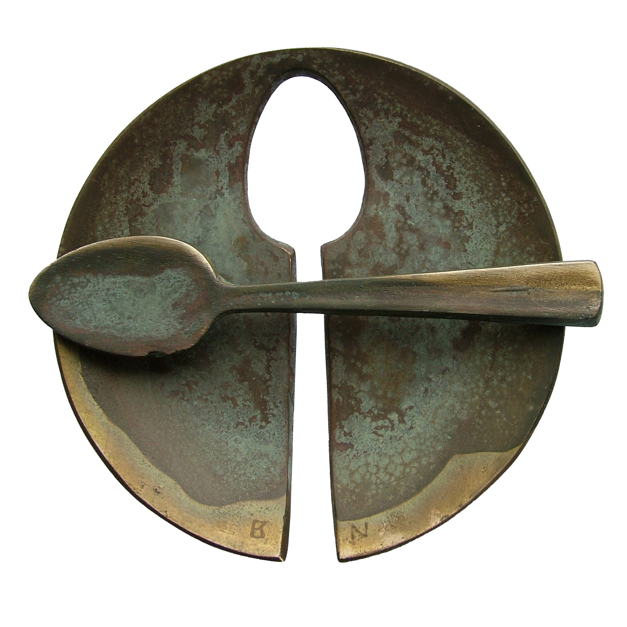 RECESSION 1 2010, brass, 115 mm